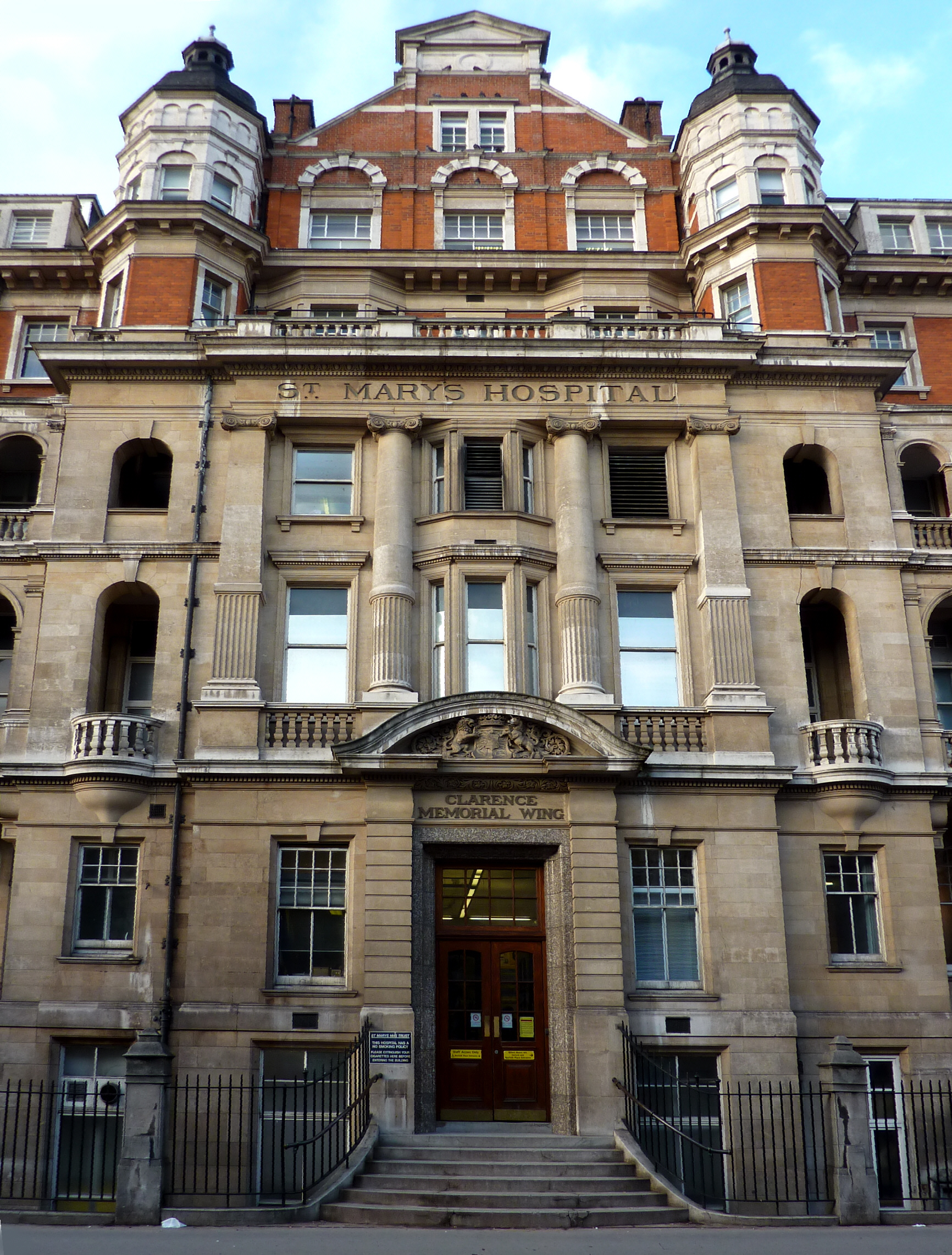 St Mary's Hospital, Clarence Memorial Wing. Paddington,London, UK. NHS Trust and Imperial College London campus. St Mary's Hospital is the home of the Fleming Museum. Sir Alexander Fleming, Nobel Prize for Medicine 1945 (Penicillin).